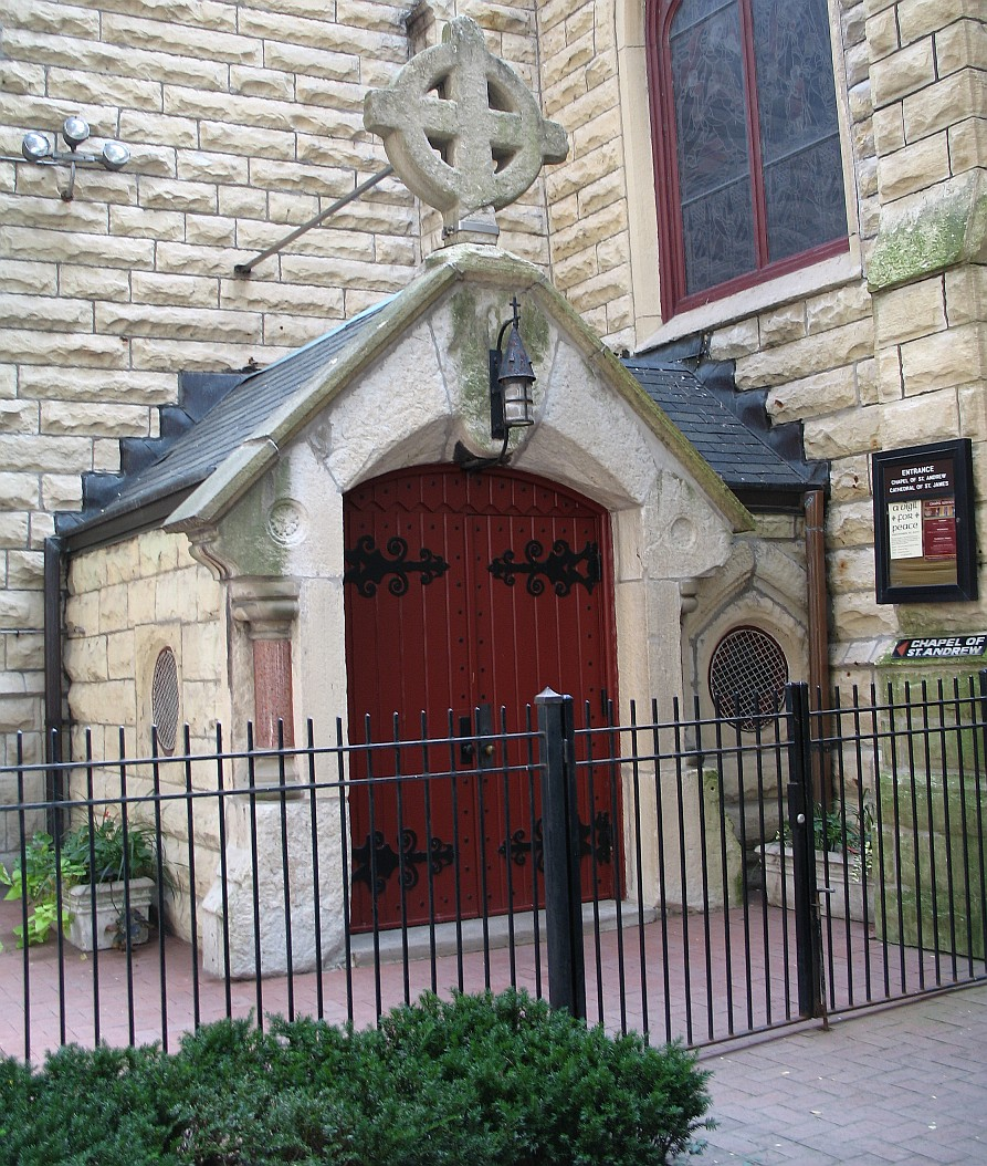 Chapel of St. Andrew besides the Episcopalian St James cathedral in Chicago, Illinois